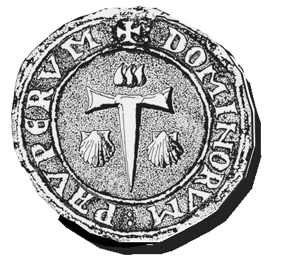 Seal of Order of st. James of Altopascio